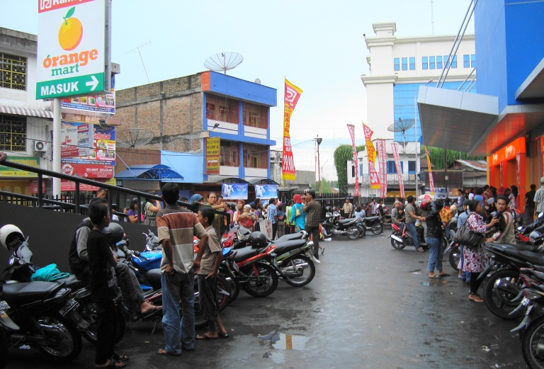 Ramayana Department Store, Pematang Siantar city, Simalungun regency, North Sumatra.